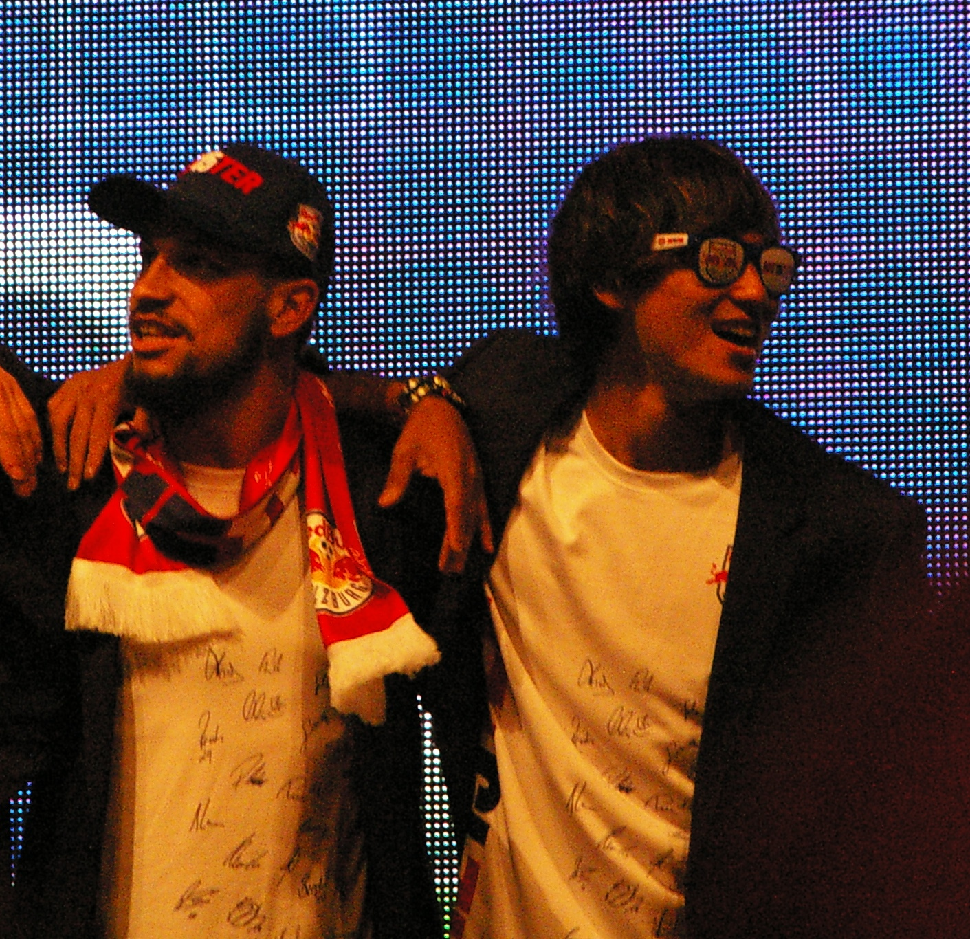 Celebration of the 6th title 2015